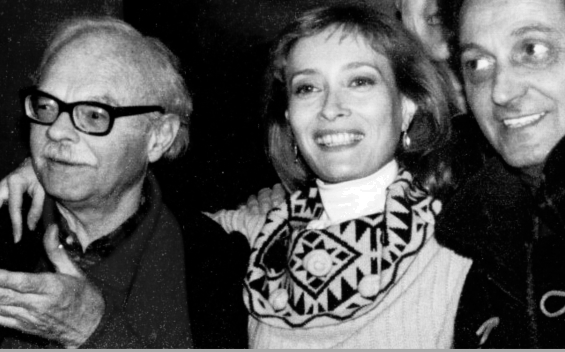 Italian pioneers of electronic art. From left side: Gianni Toti, Caterina Davinio, Mario Sasso, La Vetrina night club, Rome (I) 1993.